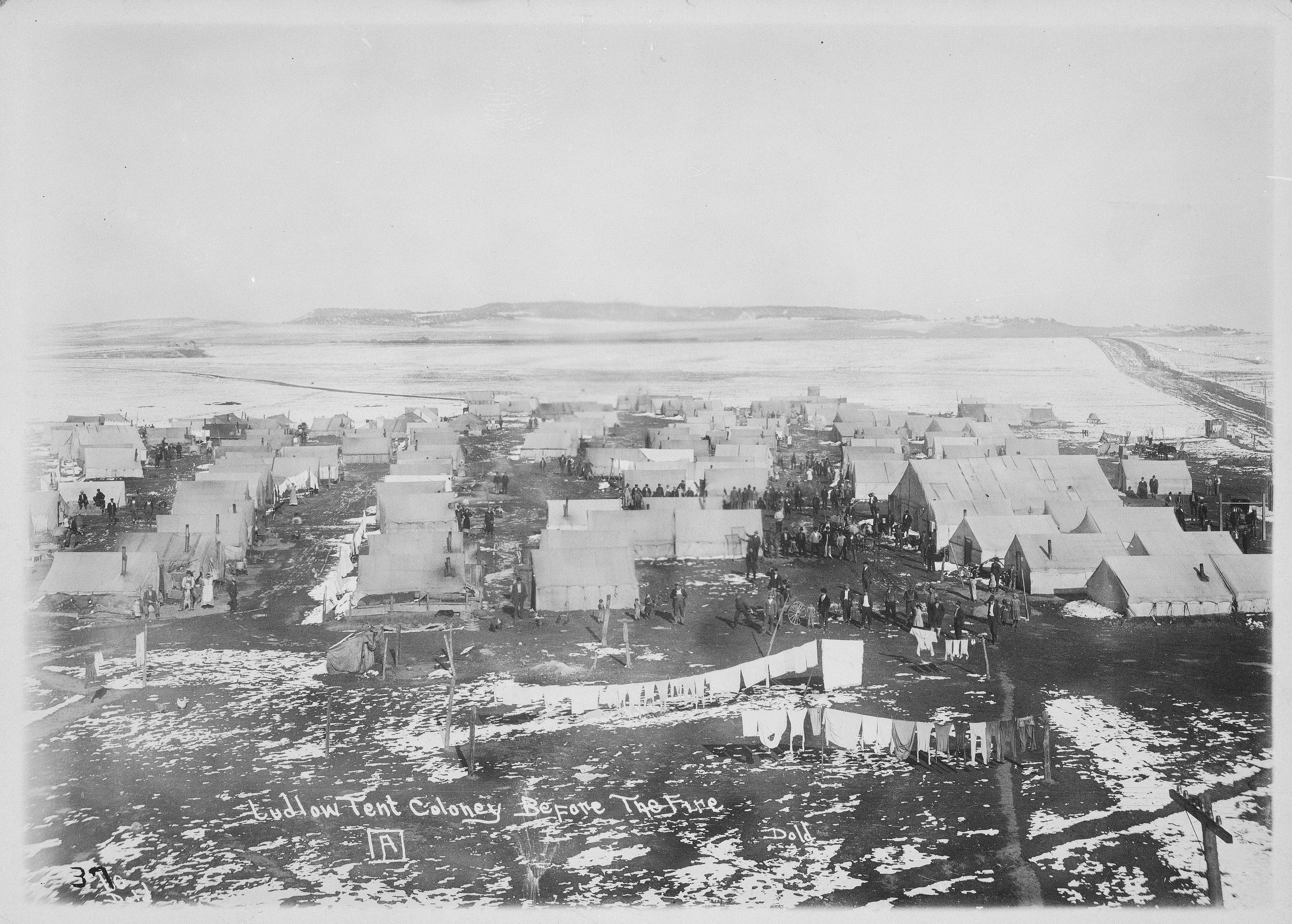 ARC Identifier: 533852 NAIL Control Number: NWDNS-174-X